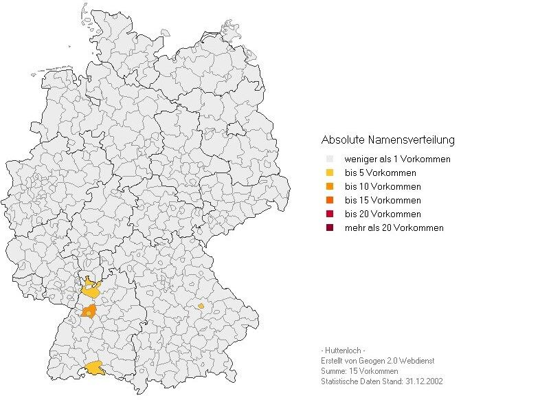 Distribution of the surname Huttenloch in Germany (phone book 2002-12-31)